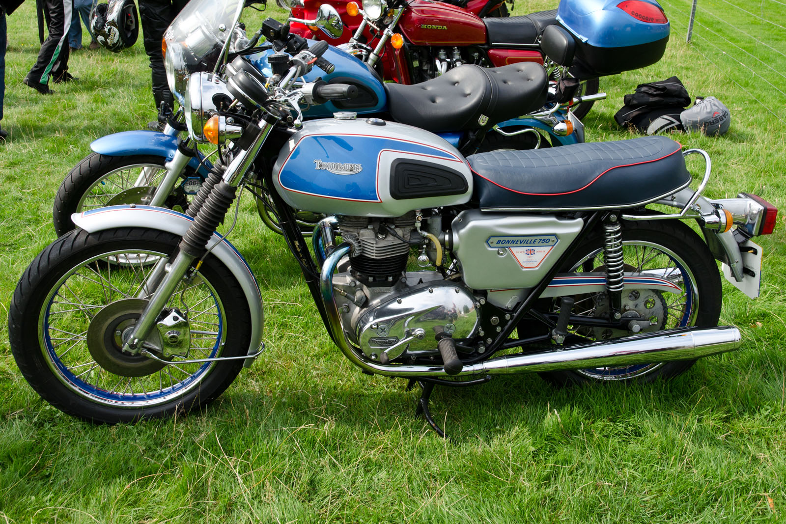 Capesthorne Hall Classic Car Show 25/08/2013